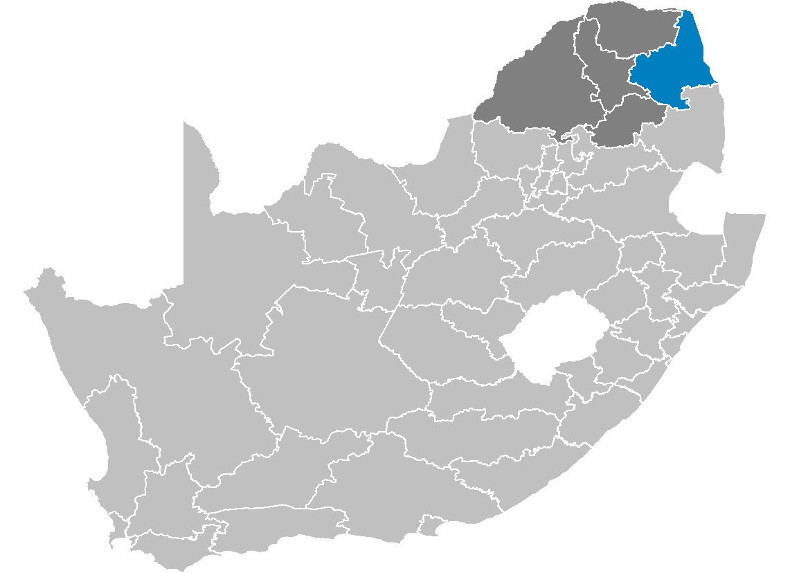 Map showing the Mopani District Municipality higlighted within Limpopo.